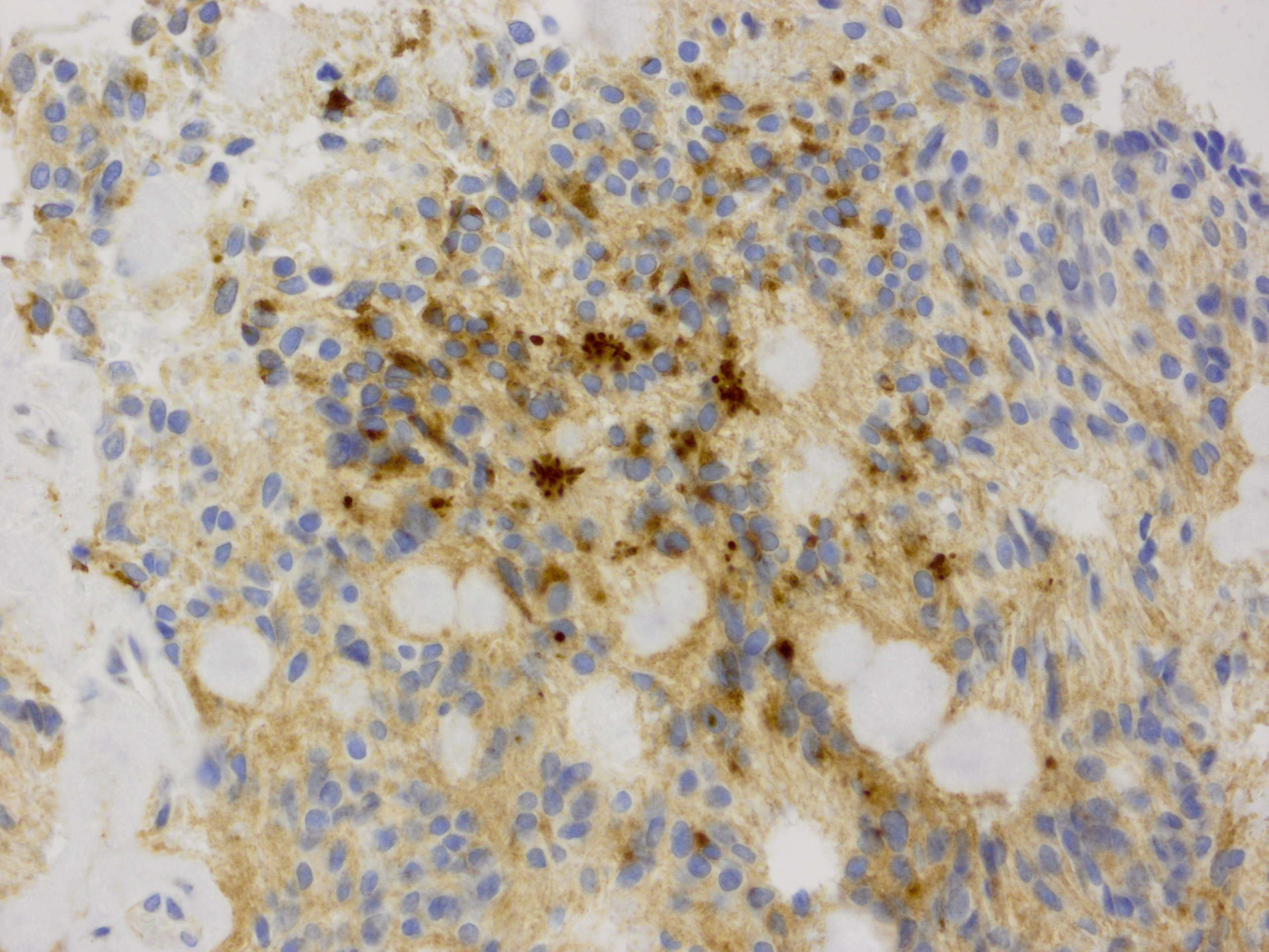 Histopathology of ependymoma. Multiple dot-like immunoreactivities highlighting microlumina on immunohistochemical staining for epithelial membrane antigen.